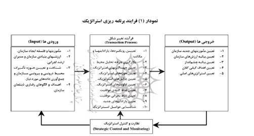 strategic planning4